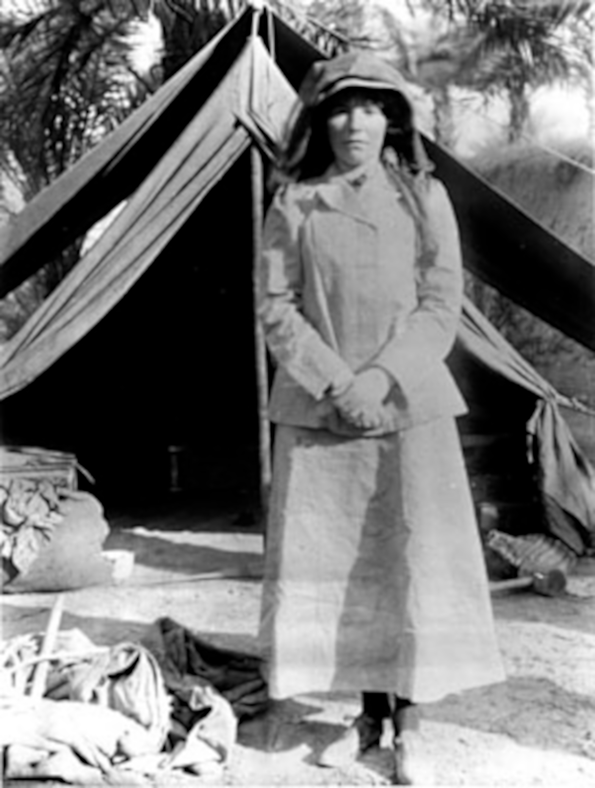 Photo of British author and archeologist Gertrude Bell, in Babylon, Iraq.